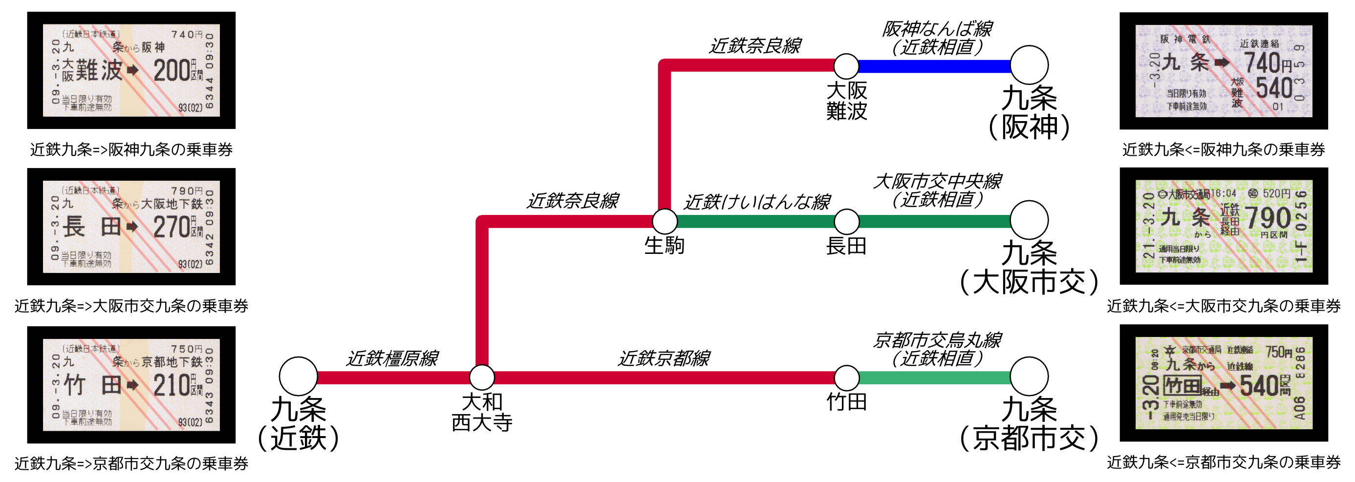 This map presents the route from Kujo Station to Kujo Station. It has the rail tickets of "Kujo to Kujo" on both side.